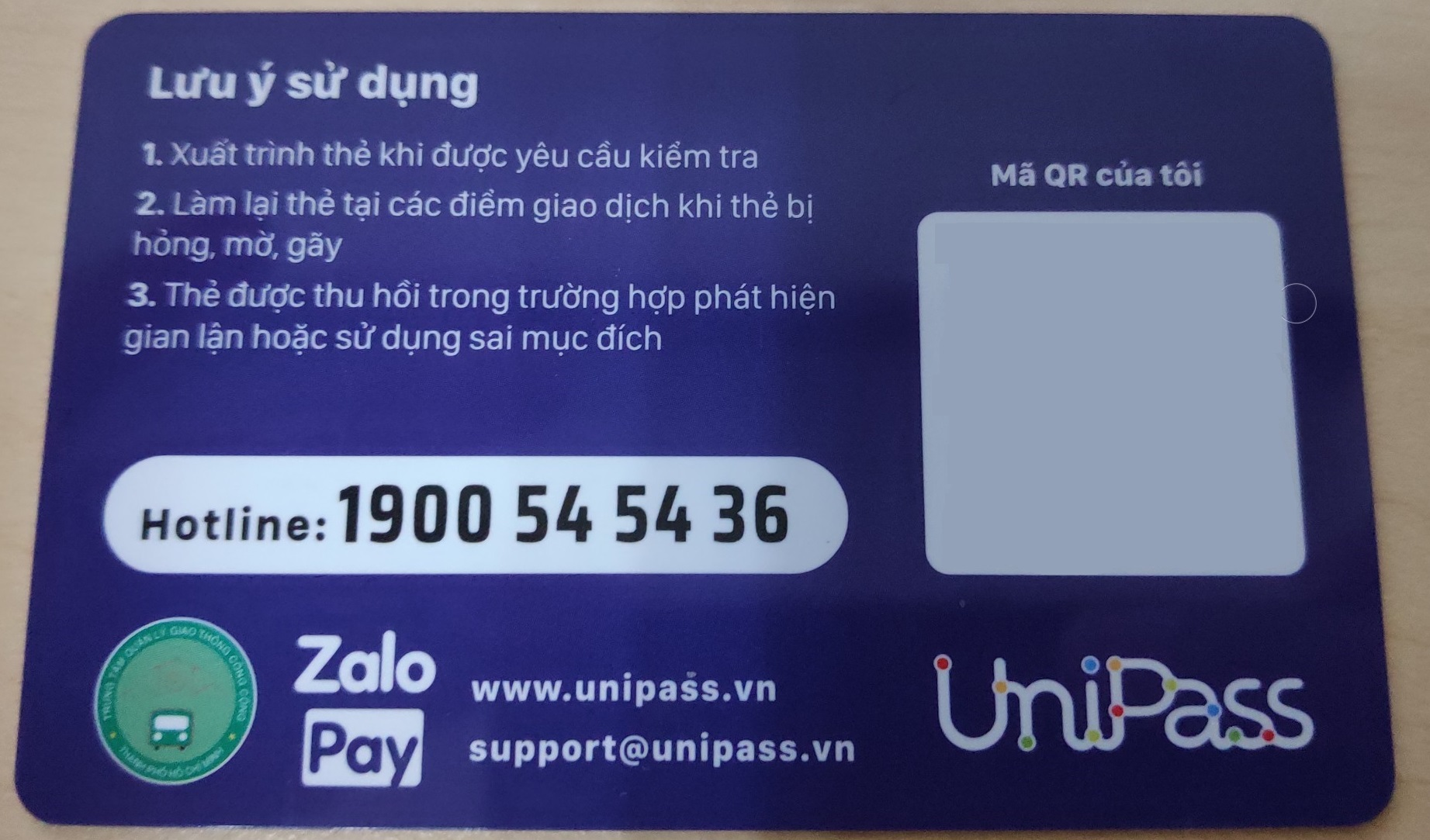 UniPass Card (back)